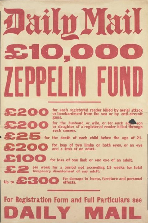 Placard for the Daily Mail : "£10,000 Zeppelin Fund £200 for each registered reader killed by aerial attack or bombardment from the sea or by anti-aircraft guns. £200 for the husband or wife, or for each adult son or daughter of a registered reader killed through such causes. £25 for the death of each child below the age of 21. £200 for loss of two limbs or both eyes, or an eye and a limb of an adult. £100 for loss of one limb or one eye of an adult. £2 per week for a period not exceeding 15 weeks for total temporary disablement of any adult. Up to £300 for damage to home, furniture and personal effects. For Registration Form and Full Particulars see DAILY MAIL"